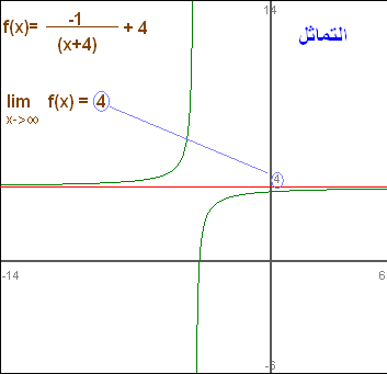 demonstration of horizontal asymptote of a function